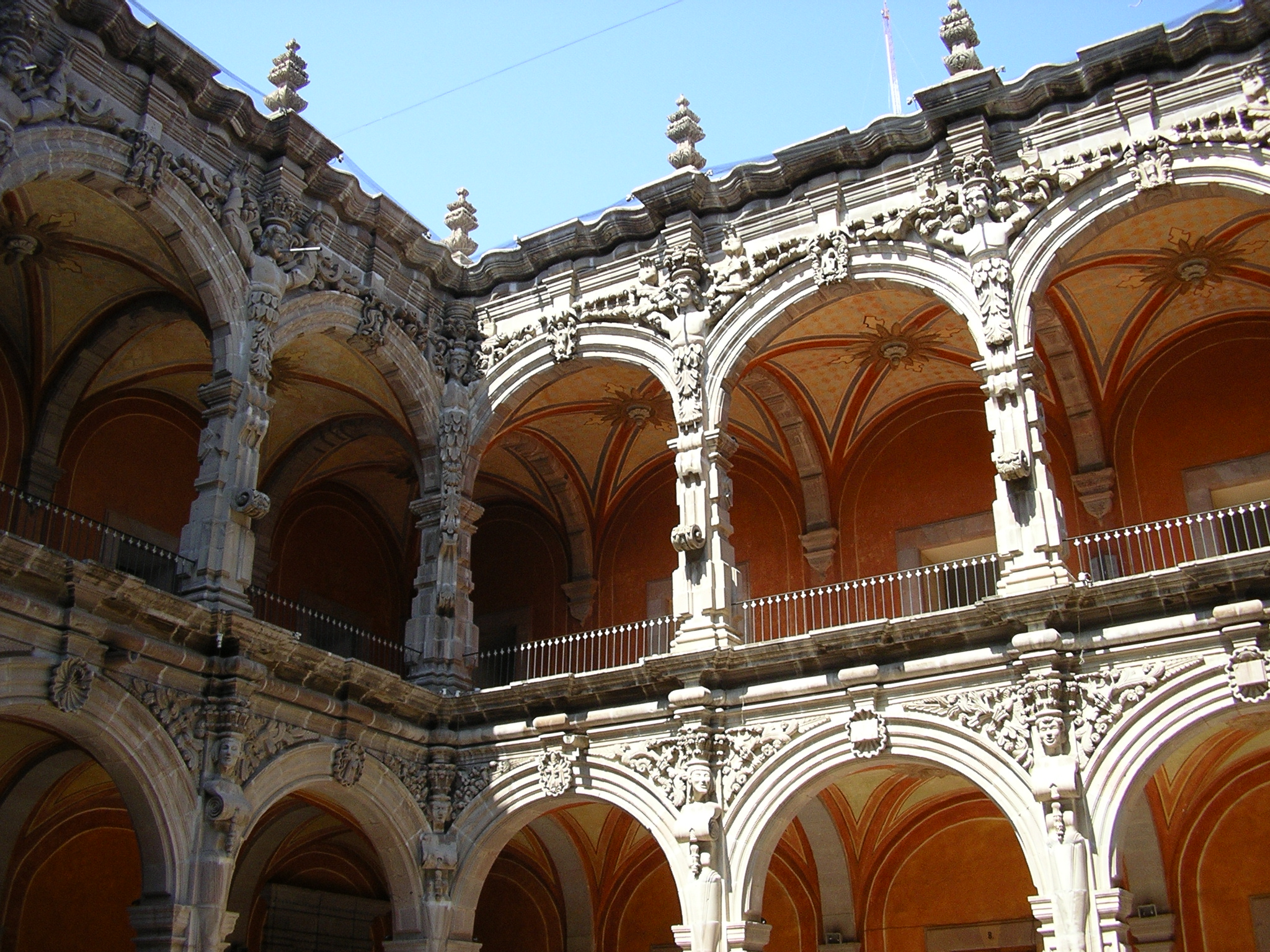 Museum of Art, Querétaro (‘’Ex monastery of San Agustin’’) — view of courtyard, balconies, and architectural sculptures from Spanish Colonial era. In the Centro Histórico of Santiago de Querétaro, Municipality of Querétaro, Querétaro state, México.